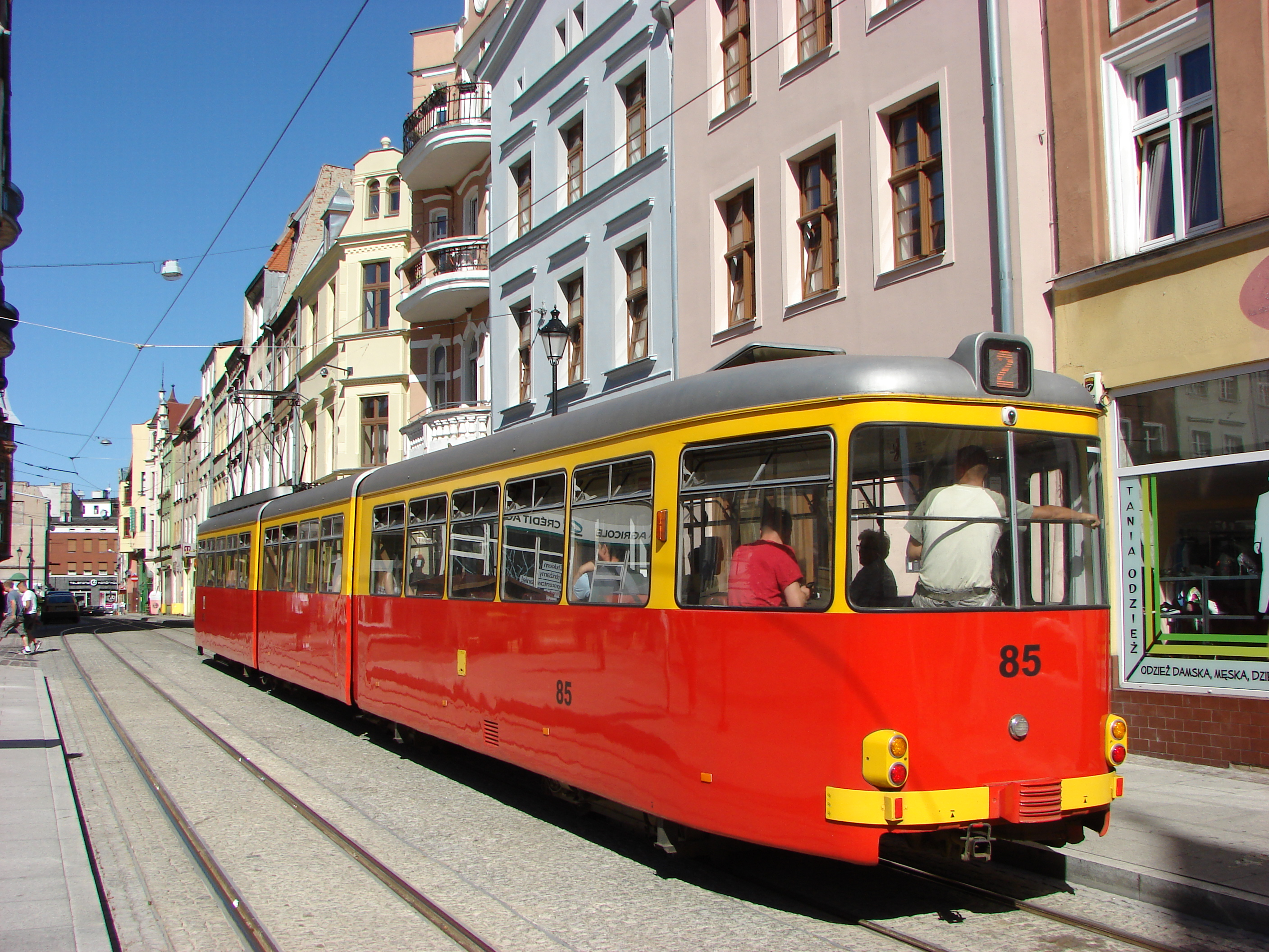 Trams in Grudziądz, Poland. Düwag GT8. July 2015